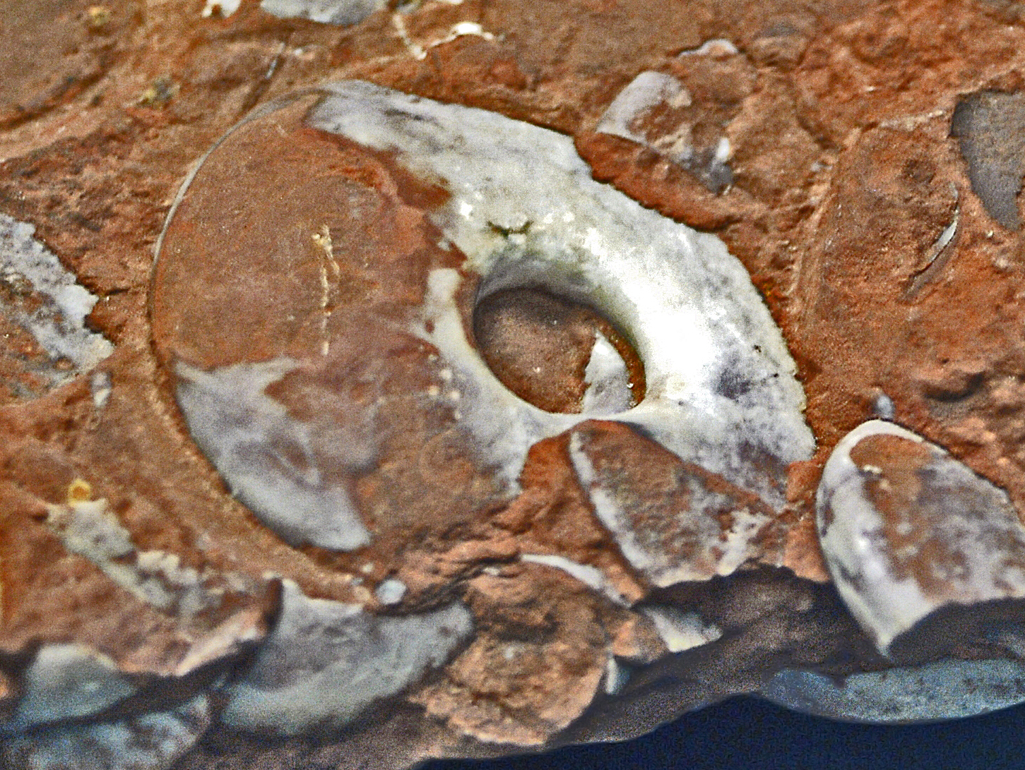 Manticoceras species on display at the Museo Civico di Storia Naturale di Milano